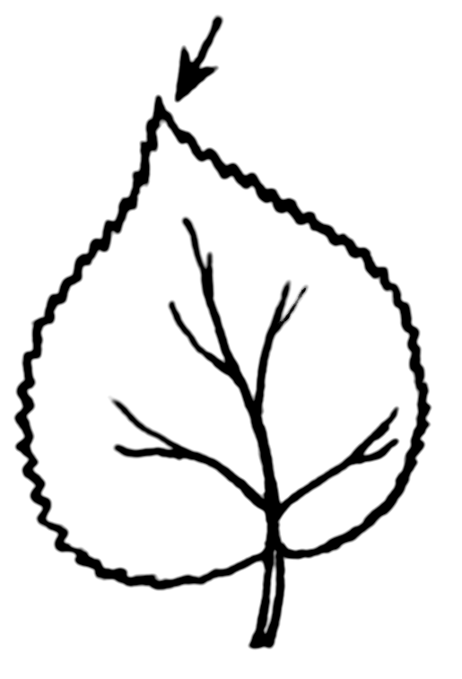 Arrow points the apex